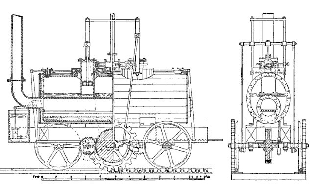 Period drawing of the Blenkinsop's locomotive - 1812.This drawing is earlier than the Salamanca locomotive: cylinders are single-acting and cranks are not at right angle.